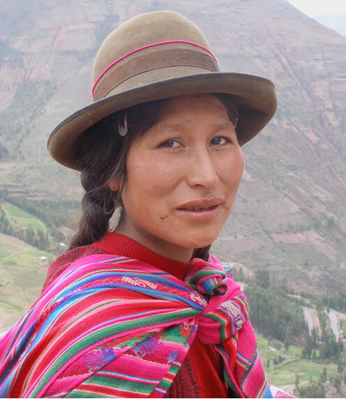 An Amerindian woman and child in the Sacred Valley, Andes, Peru.